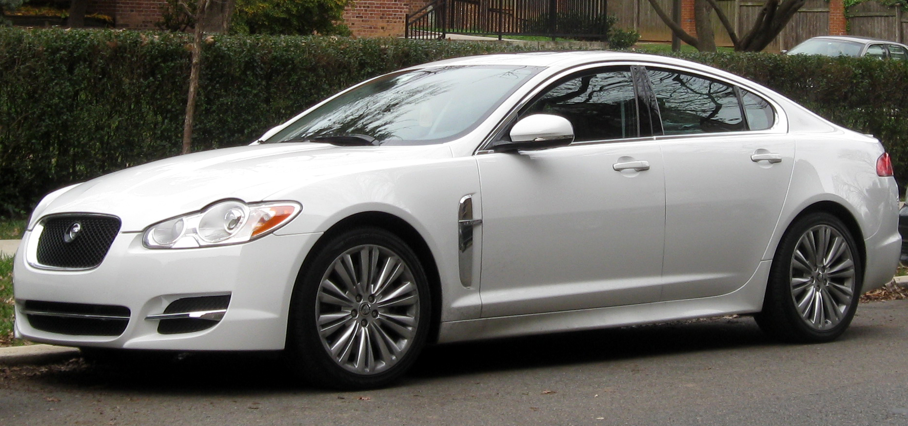 Jaguar XF photographed in Washington, D.C., USA.